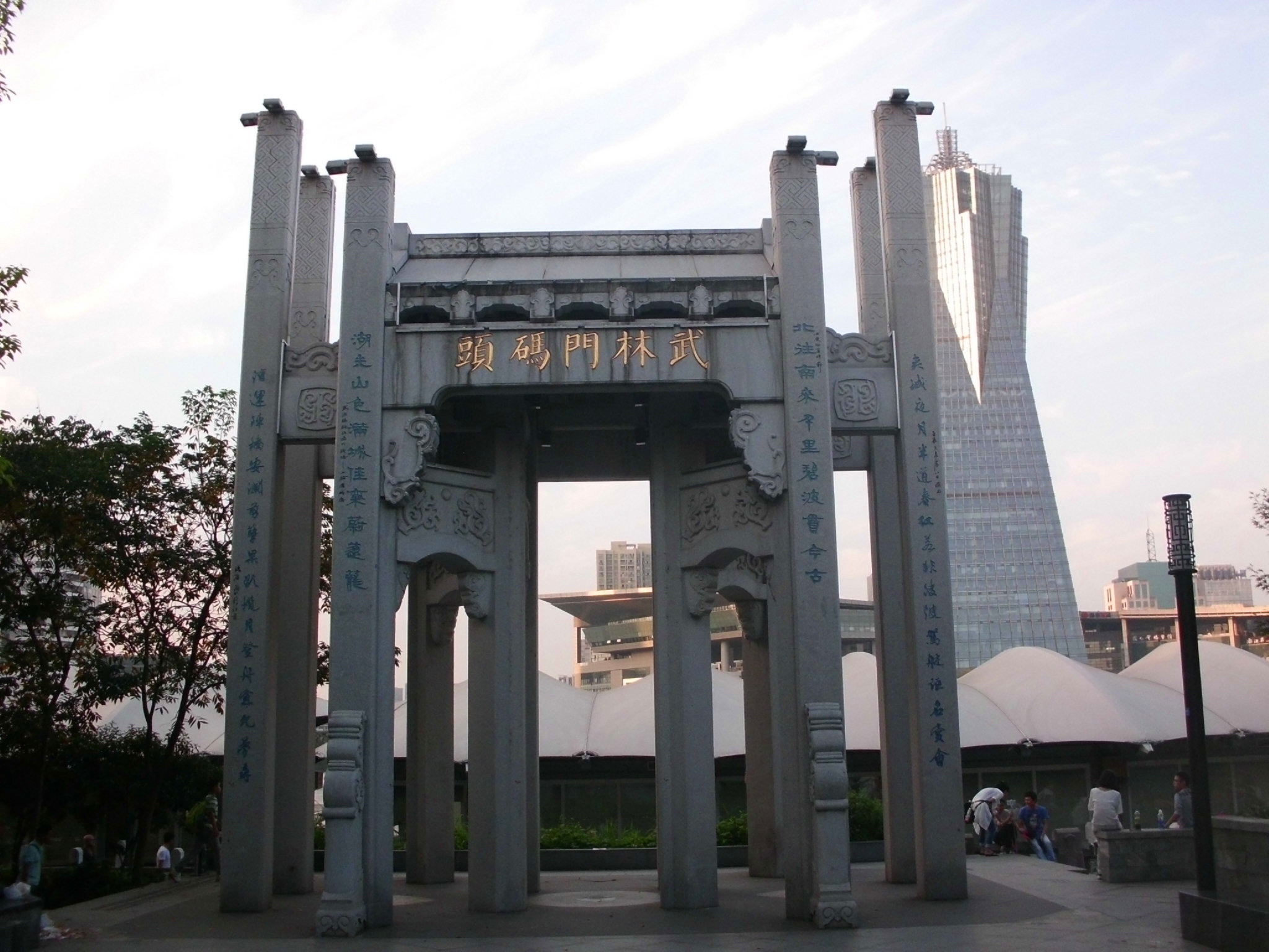 Westlake Cultural Square